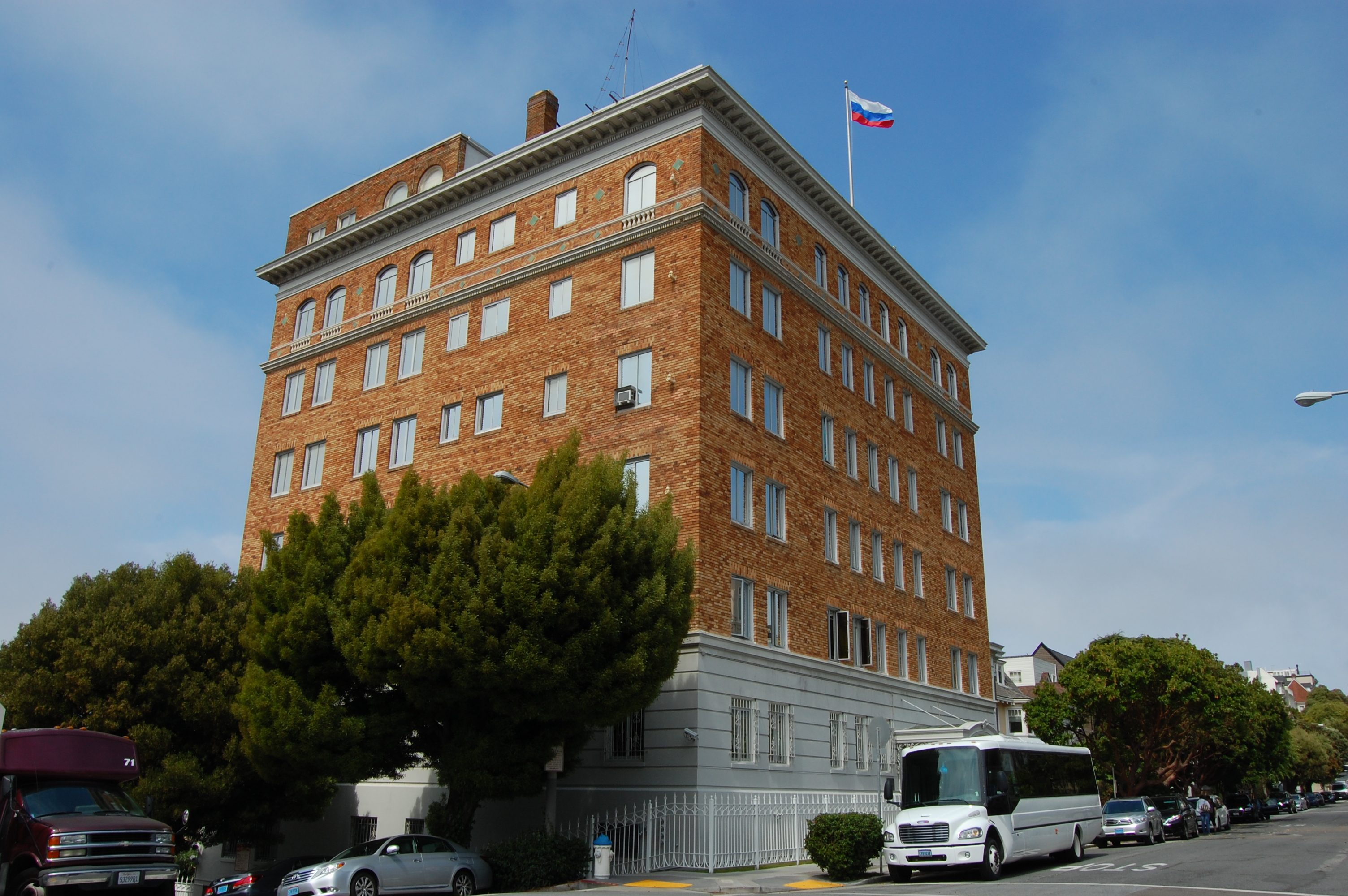 Russian Federation Consulate. 2790 Green Street. San Francisco, California, USA